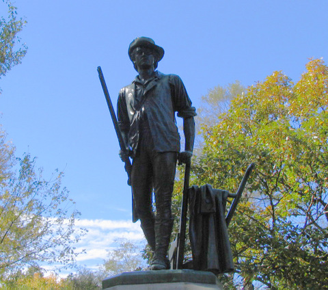 Minuteman Statue, by Daniel Chester French in Concord, Massachusetts, USA